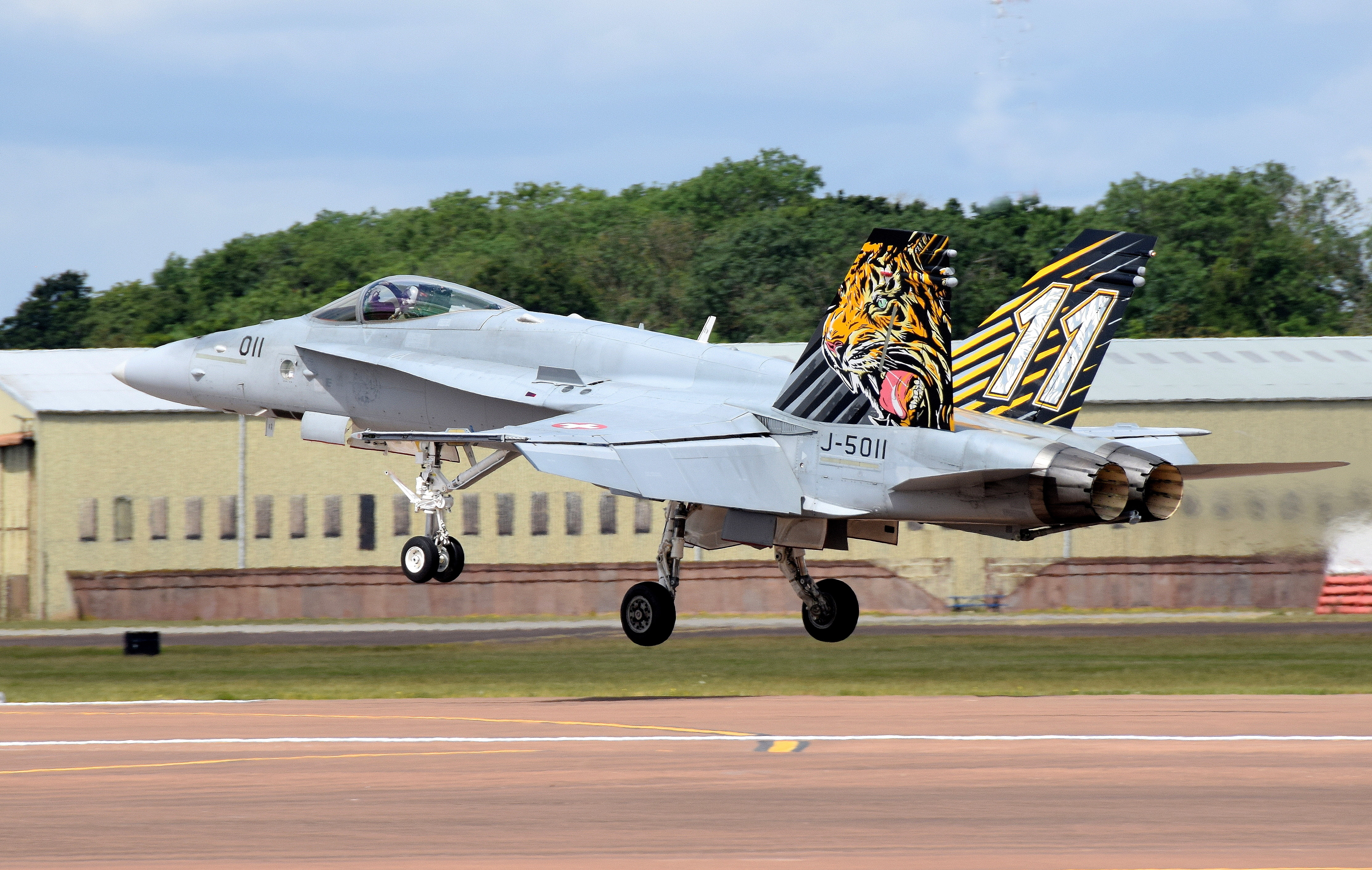 MacDonnell Douglas F/A-18C Hornet of the Swiss Air Force arrives at the 2019 Royal International Air Tattoo, RAF Fairford, England. Reg J-5011, code 011.